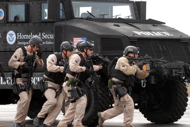 Special Response Team (SRT) within Homeland Security Investigations (HSI) of the U.S. Immigration and Customs Enforcement (ICE) participates in a rigorous training exercise utilizing an armored vehicle at Fort Benning in Georgia.